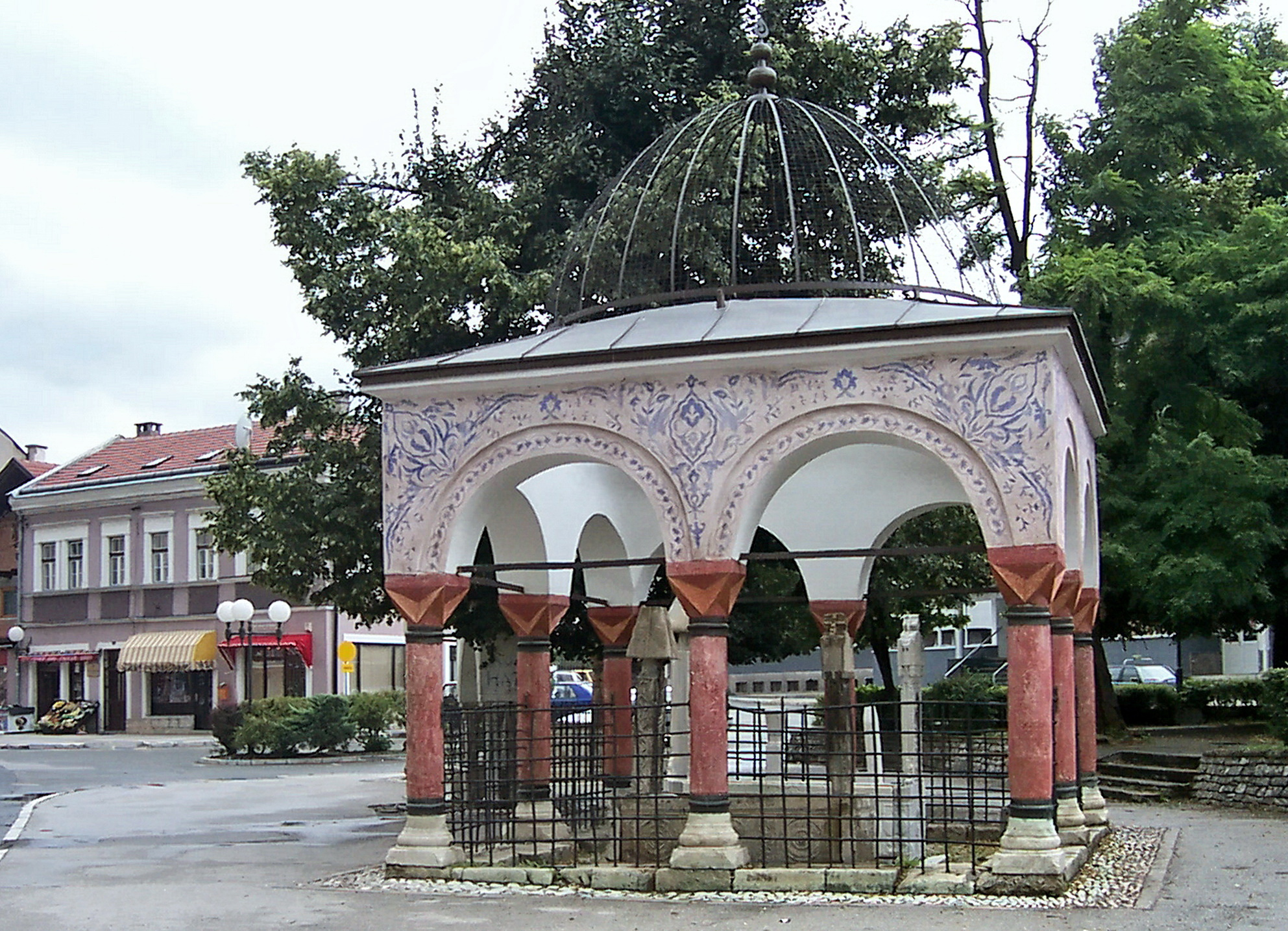 Türbe shrine in Travnik, Bosnia. Cropped, slightly sharpened and rotated, digitally edited